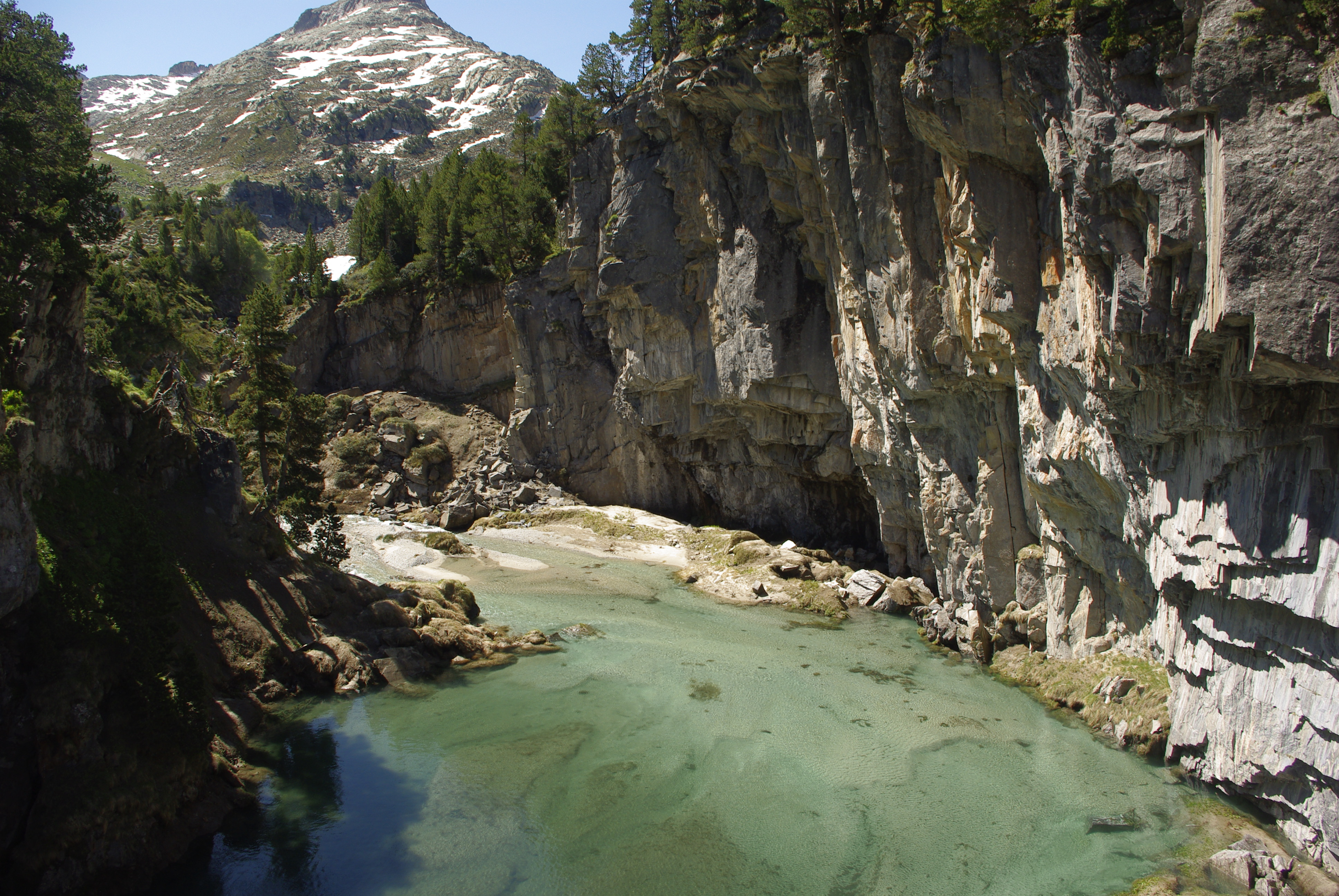 This is a photography of a Special Area of Conservation in Spain with the ID: ES0000149. Natura2000 entry, EEA entry